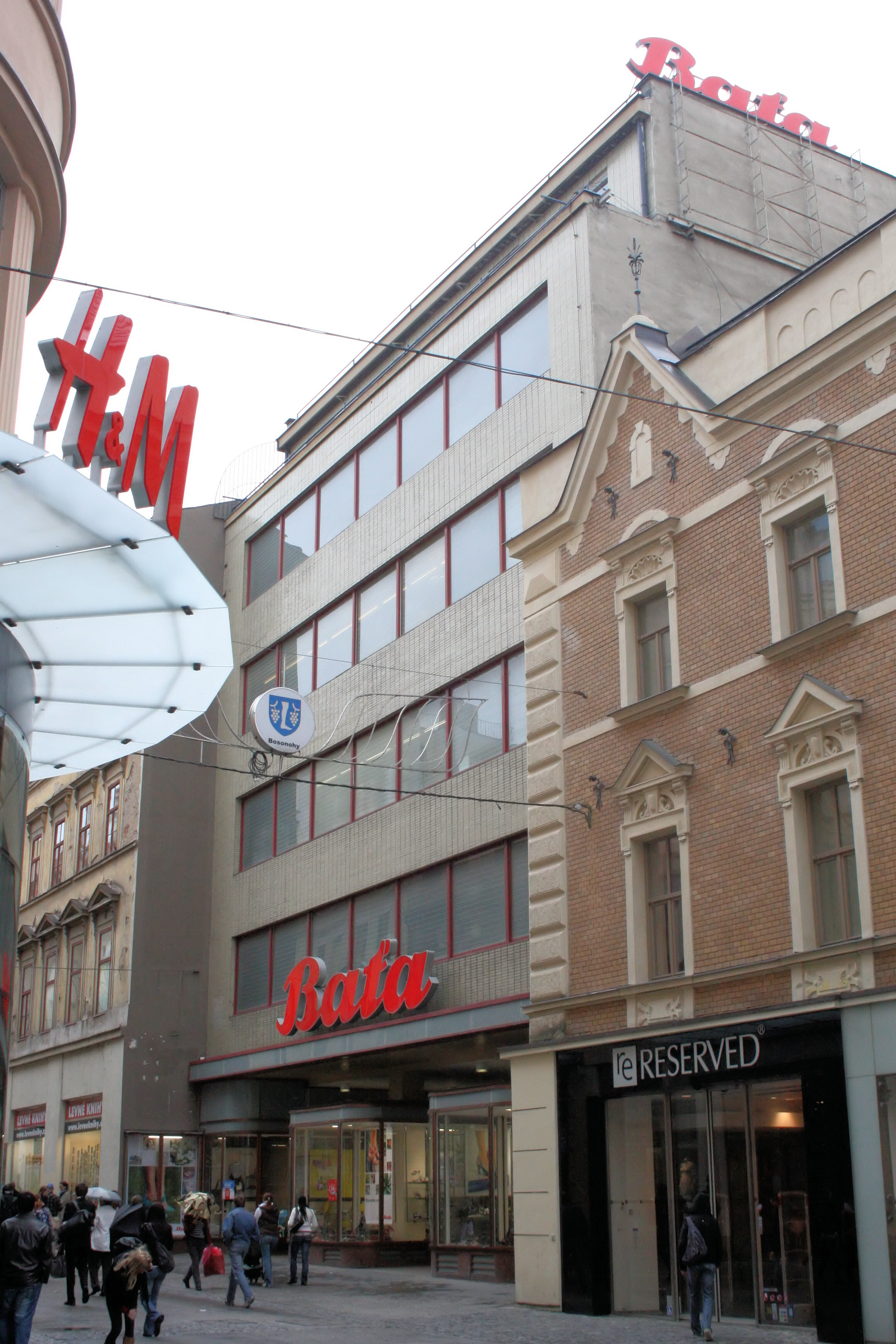 Bata store at Česká street in Brno, Czech Republic.